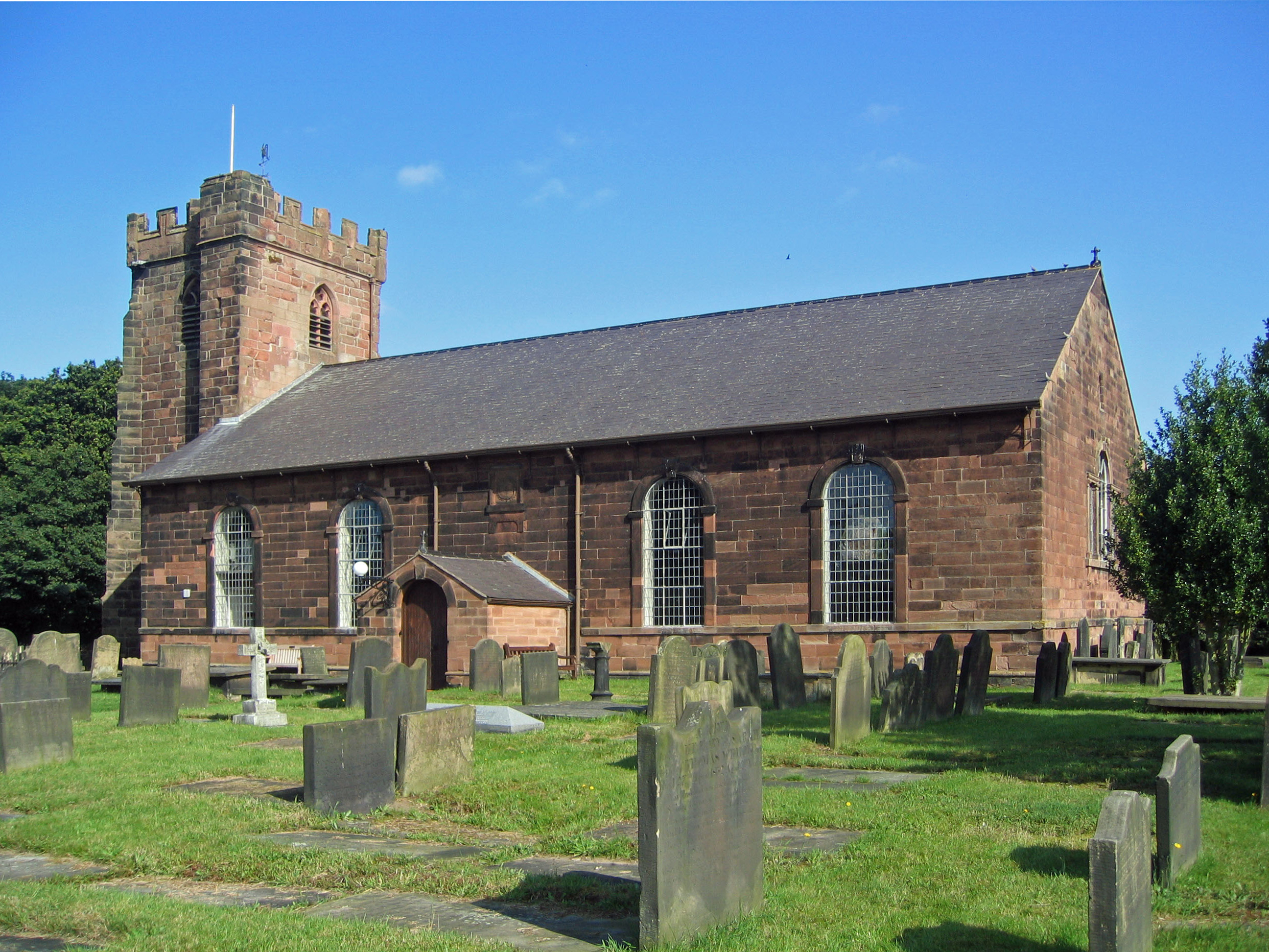 Photograph of St Mary's Church, Hale, Halton, Cheshire from the southeast